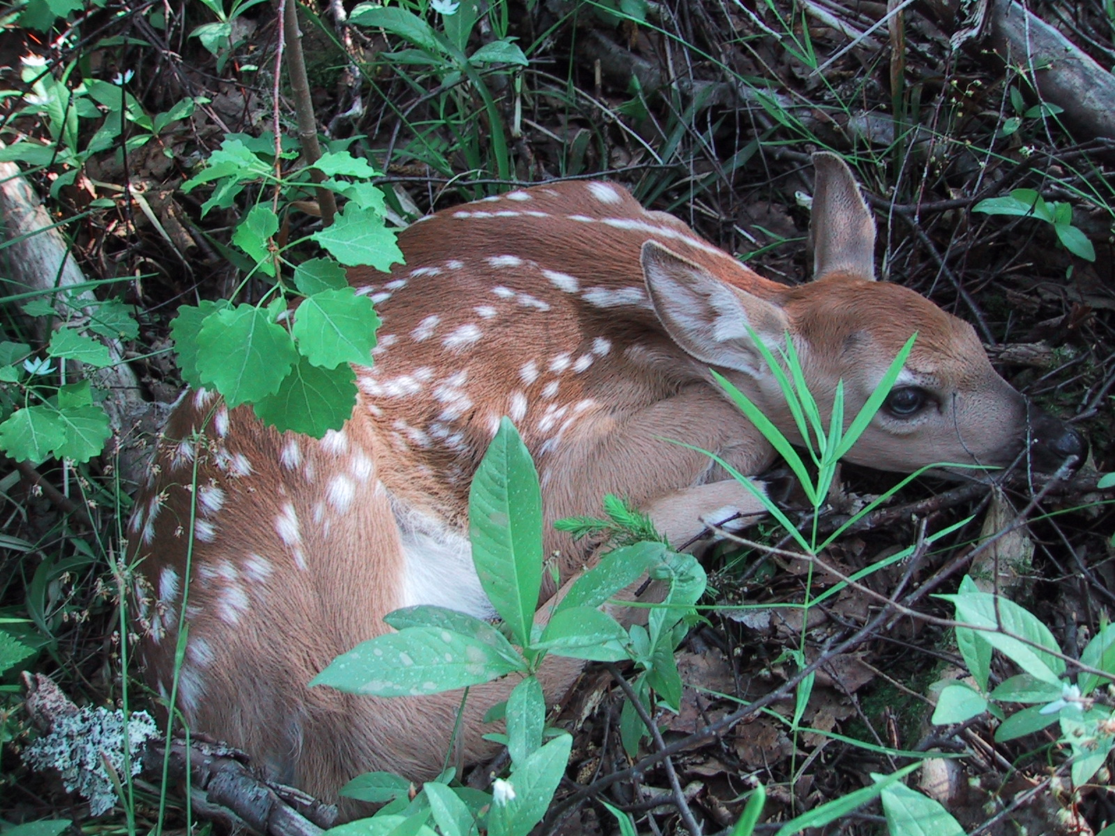 White-tailed Deer (Odocoileus virginianus) fawn in the wild near Helsinki, Finland. Photo taken on June 5 2002.